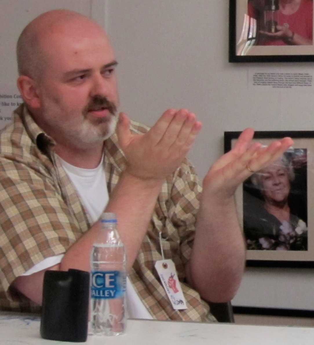 Ian Culbard at CAPTION 2011